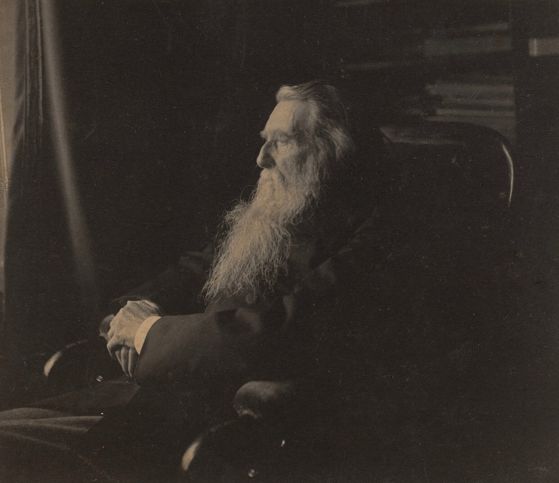 Portrait of John Ruskin by Frederick Hollyer, 1894.